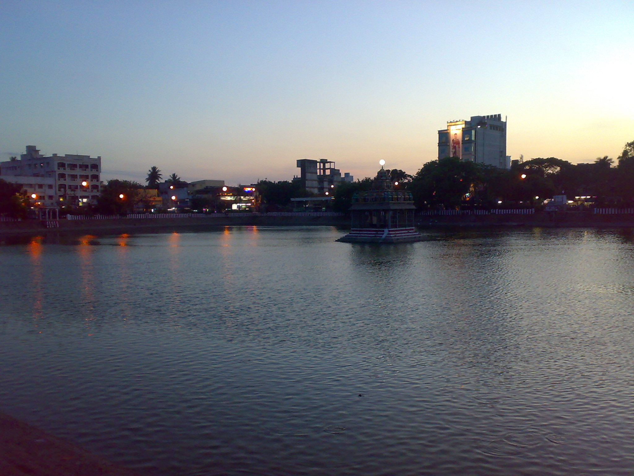 Temple Tank, Mylapore, Chennai